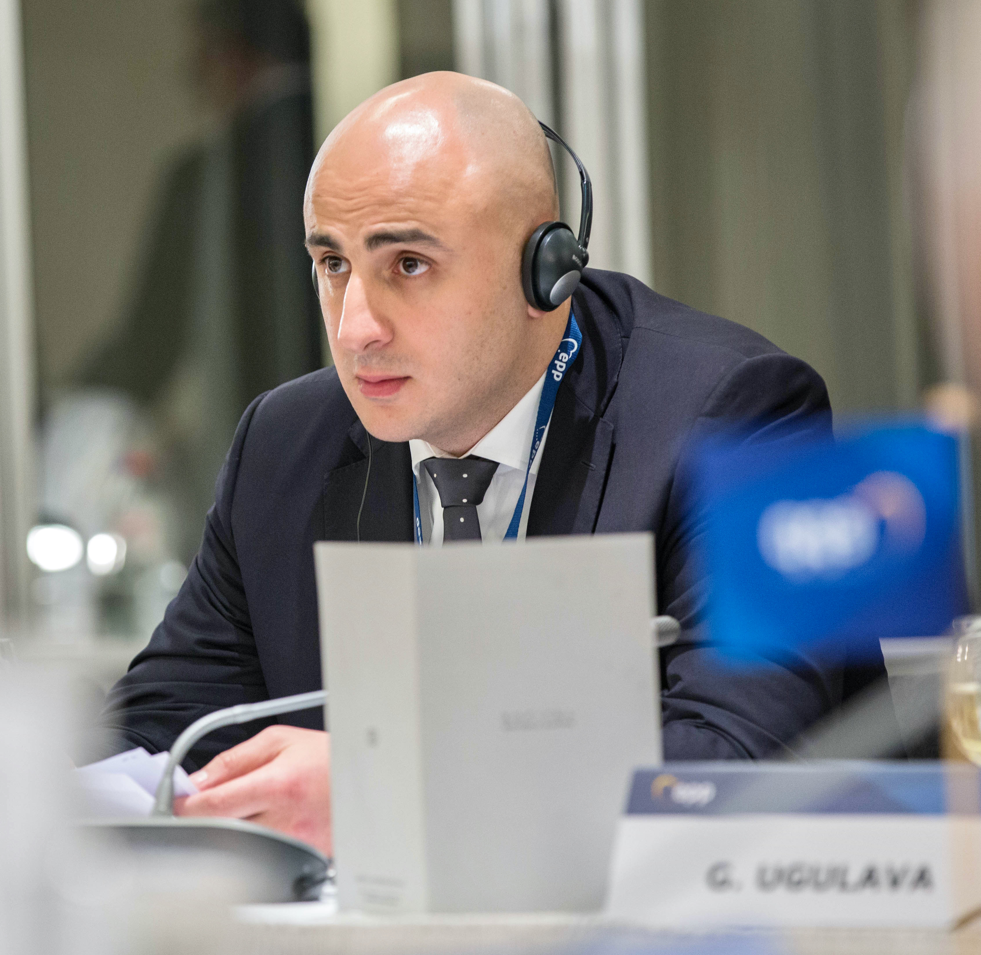 Nika Melia